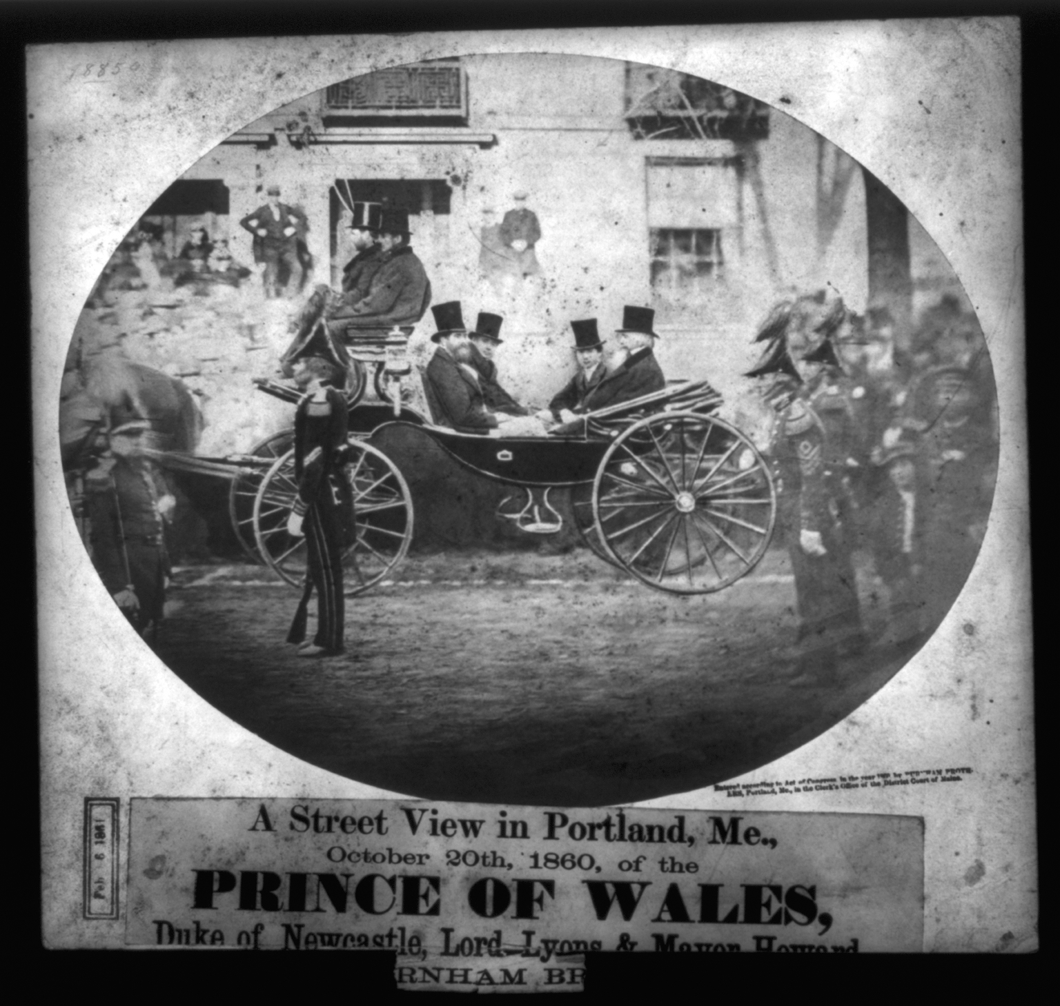 Title: A street view in Portland, Me., October 20th, 1860, of the Prince of Wales, Duke of Newcastle, Lord Lyons & Mayor Howard Creator(s): Burnham Bros., photographer Related Names: Burnham, Asa Marsh, 1825- , photographer. Burnham, Thomas Rice, 1834-1893 , photographer Date Created/Published: 1860. Medium: 1 photographic print : salted paper. Summary: Photograph shows the Prince of Wales and his entourage seated in a carriage. Reproduction Number: LC-USZ62-1680 (b&w film copy neg.) Rights Advisory: No known restrictions on publication. Call Number: PH - Burnham, no. 1 (A size) [P&P] Repository: Library of Congress Prints and Photographs Division Washington, D.C. 20540 USA